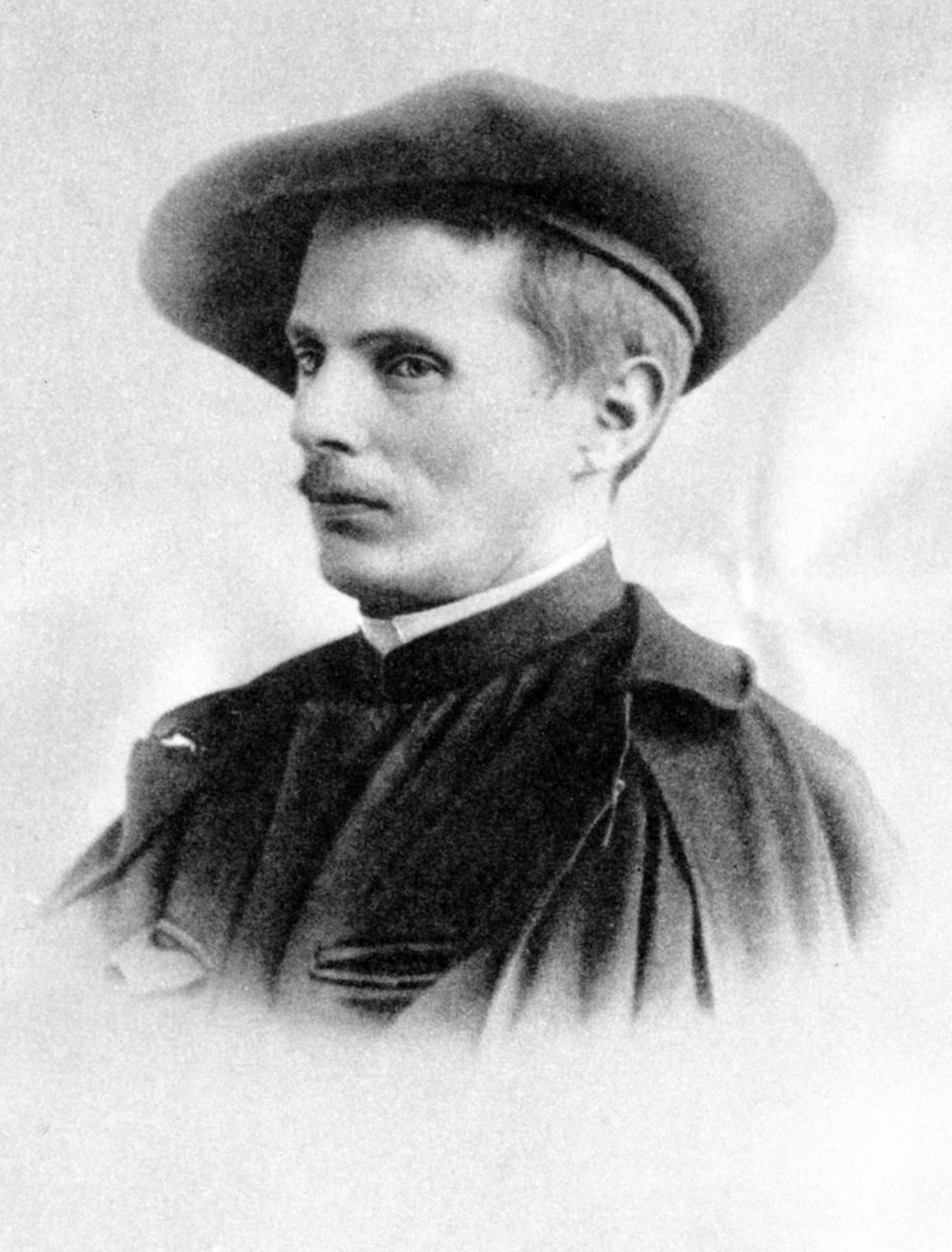 Photo of Ukrainian artist Serhiy Vasylkivsky